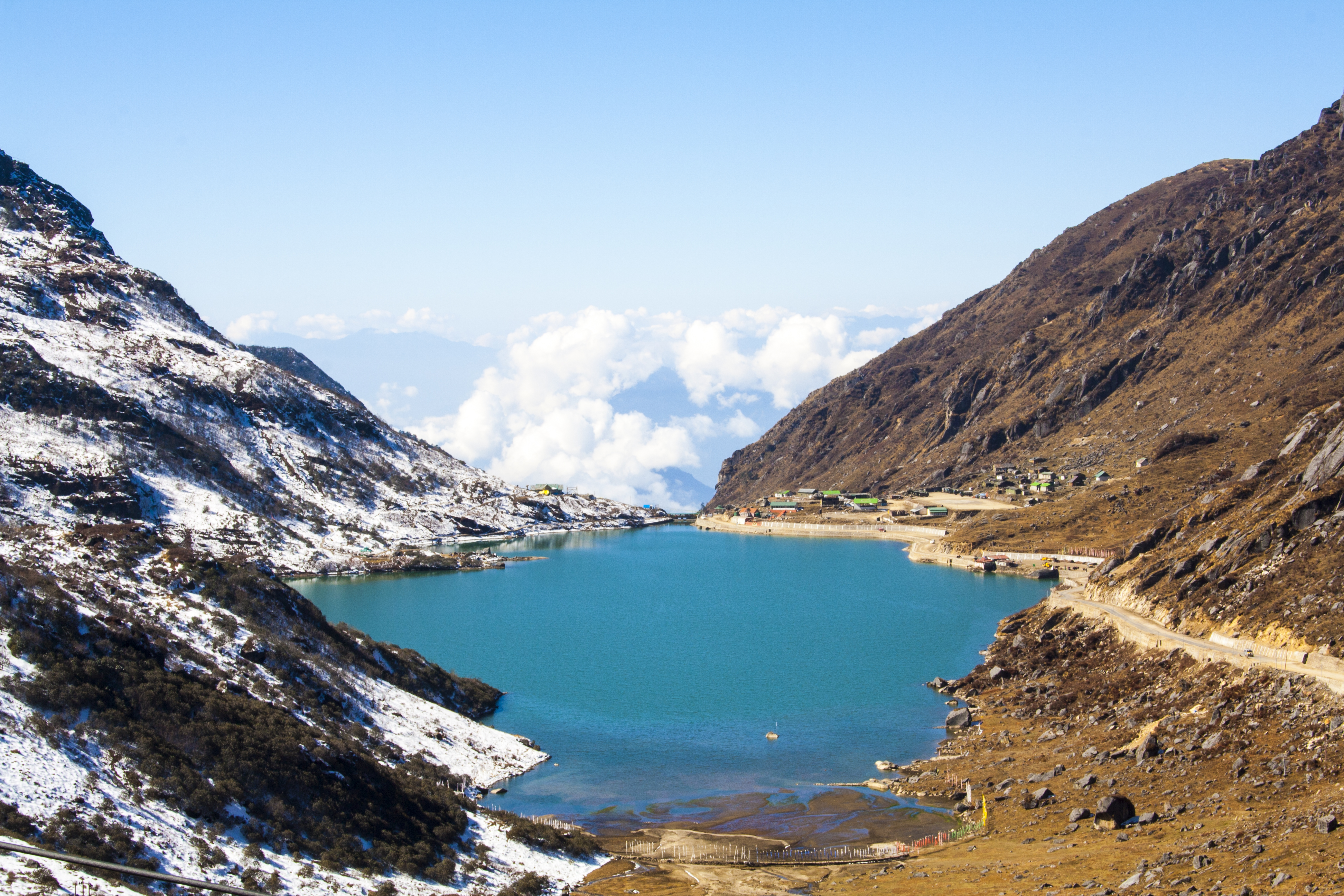 Tsongmo Lake also popular as Changu Lake , it's situated in East Sikkim about 40km away from Gangtok, Sikkim.